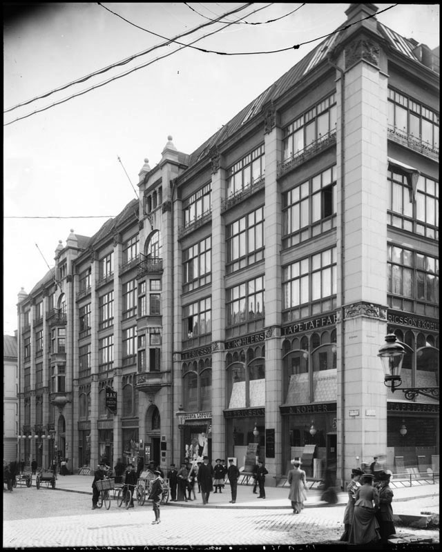 Hamngatspalatset - building demolished in 1966.